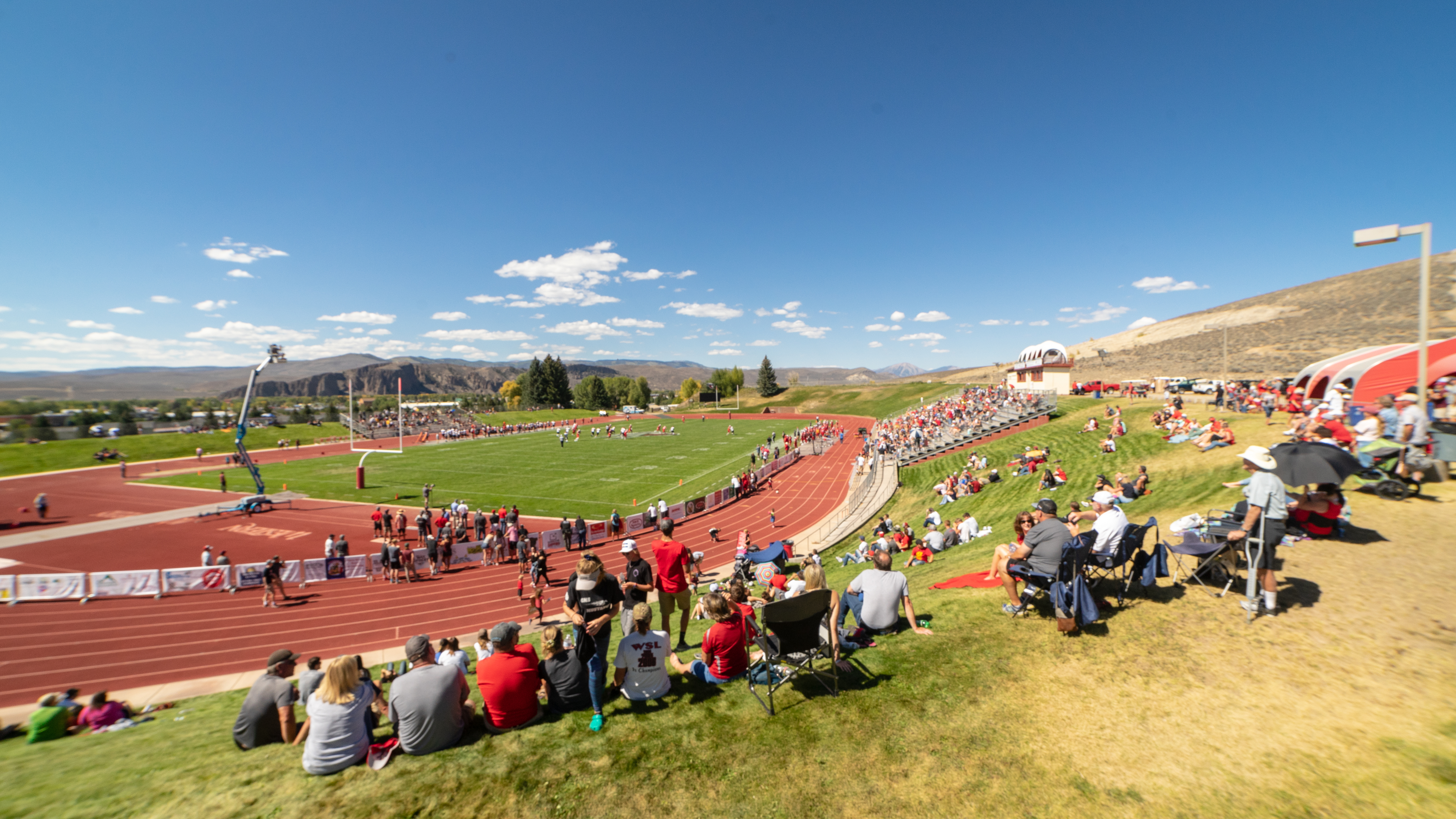 Football game at Mountaineer Bowl